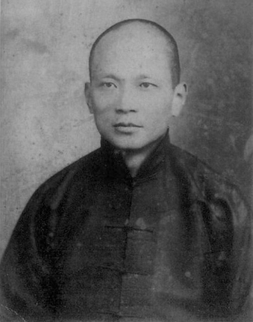 Zuo Pei (1875-1936), official of the Qing Dynasty.